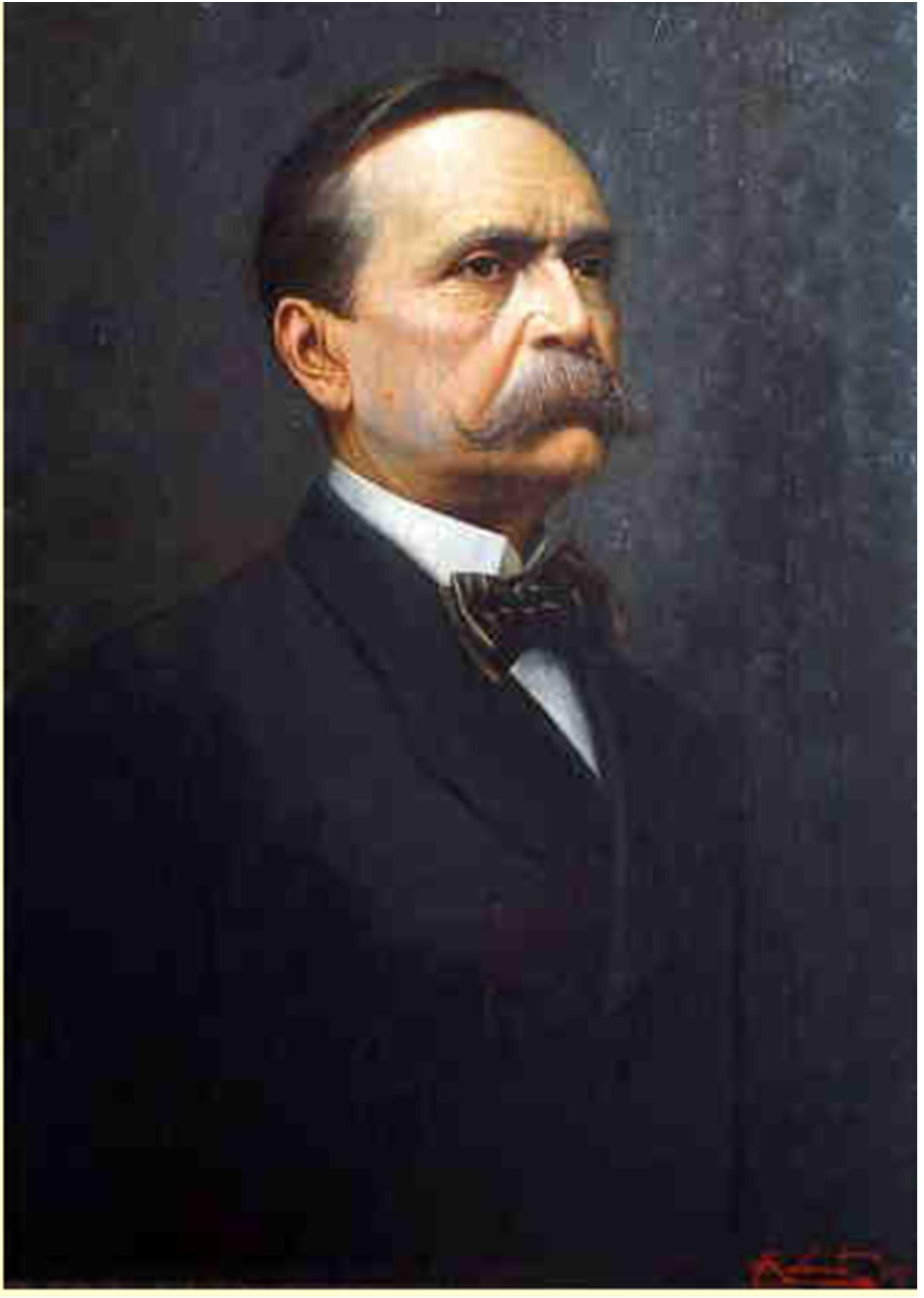 Filippo Galante (1872-1953), Portrait of Carlos Pellegrini, oil on canvas, 1907, Signed Loower Right.